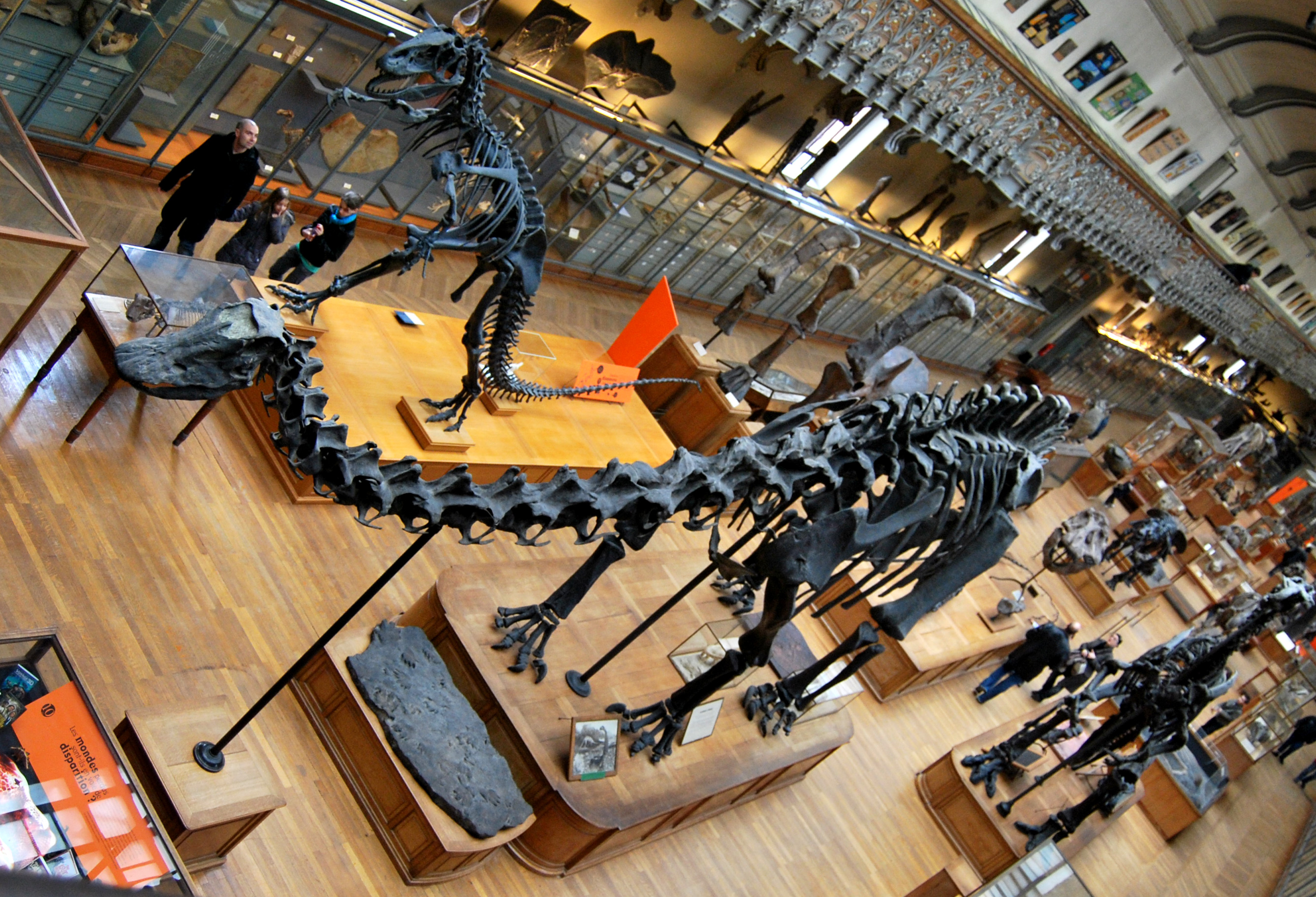 Diplodocus replica at the Paris Musée d'Histoire Naturelle